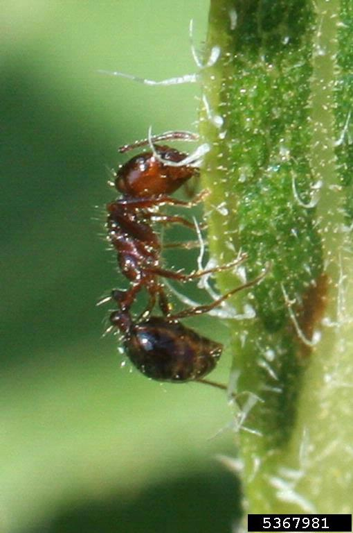 S. invicta worker foraging